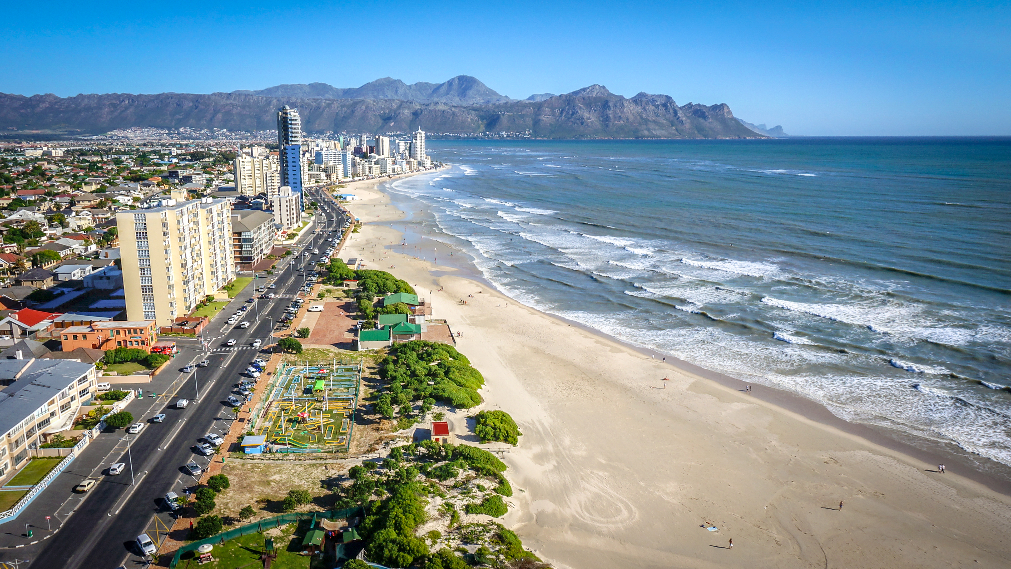 The golden beach of Strand is a popular destination for walkers and those just wanting to enjoy a good tan or bite to eat at one of many beach side coffee shops.